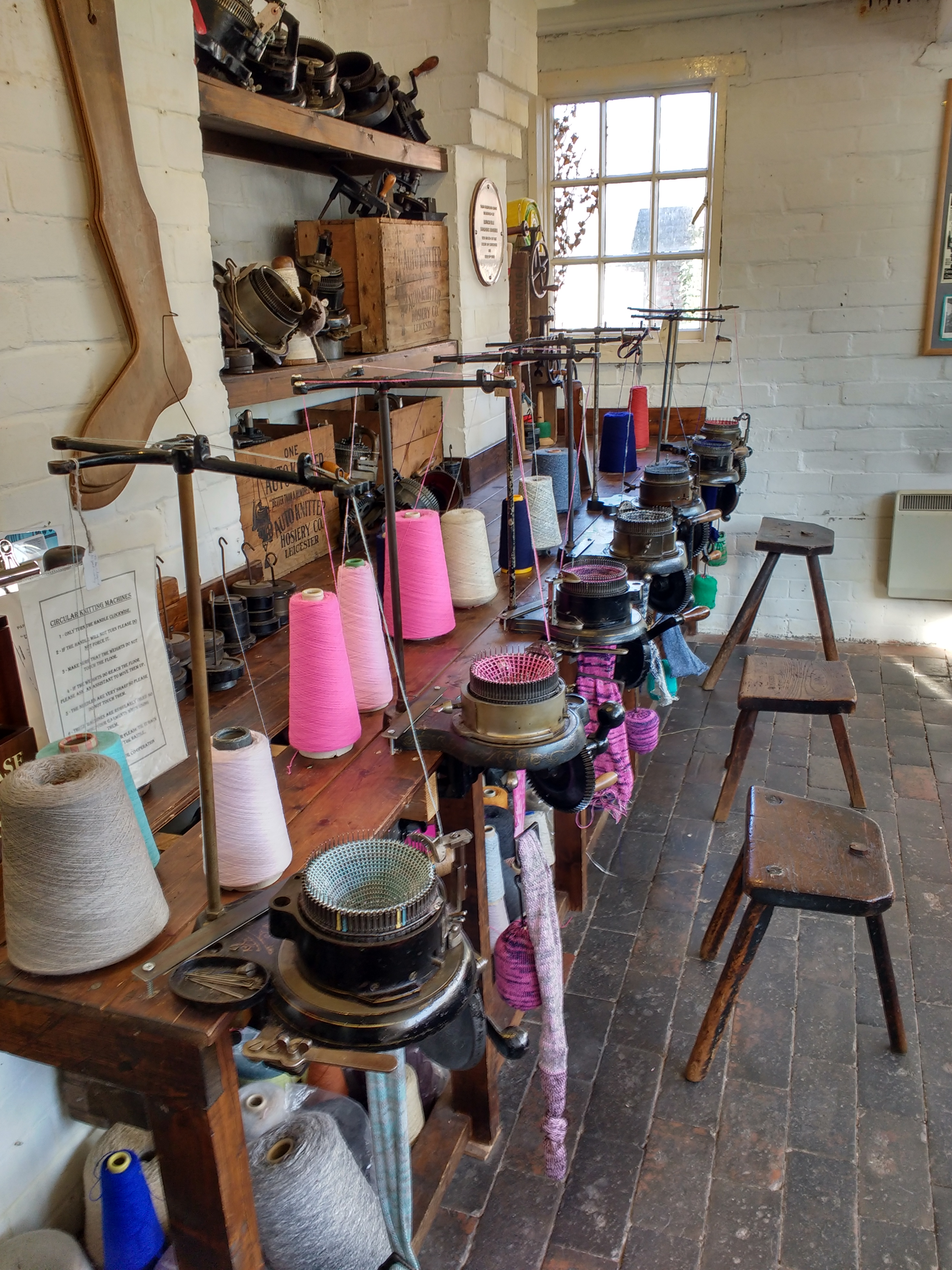 Griswold circular knitting machines, used for making socks. Small and portable. c1870